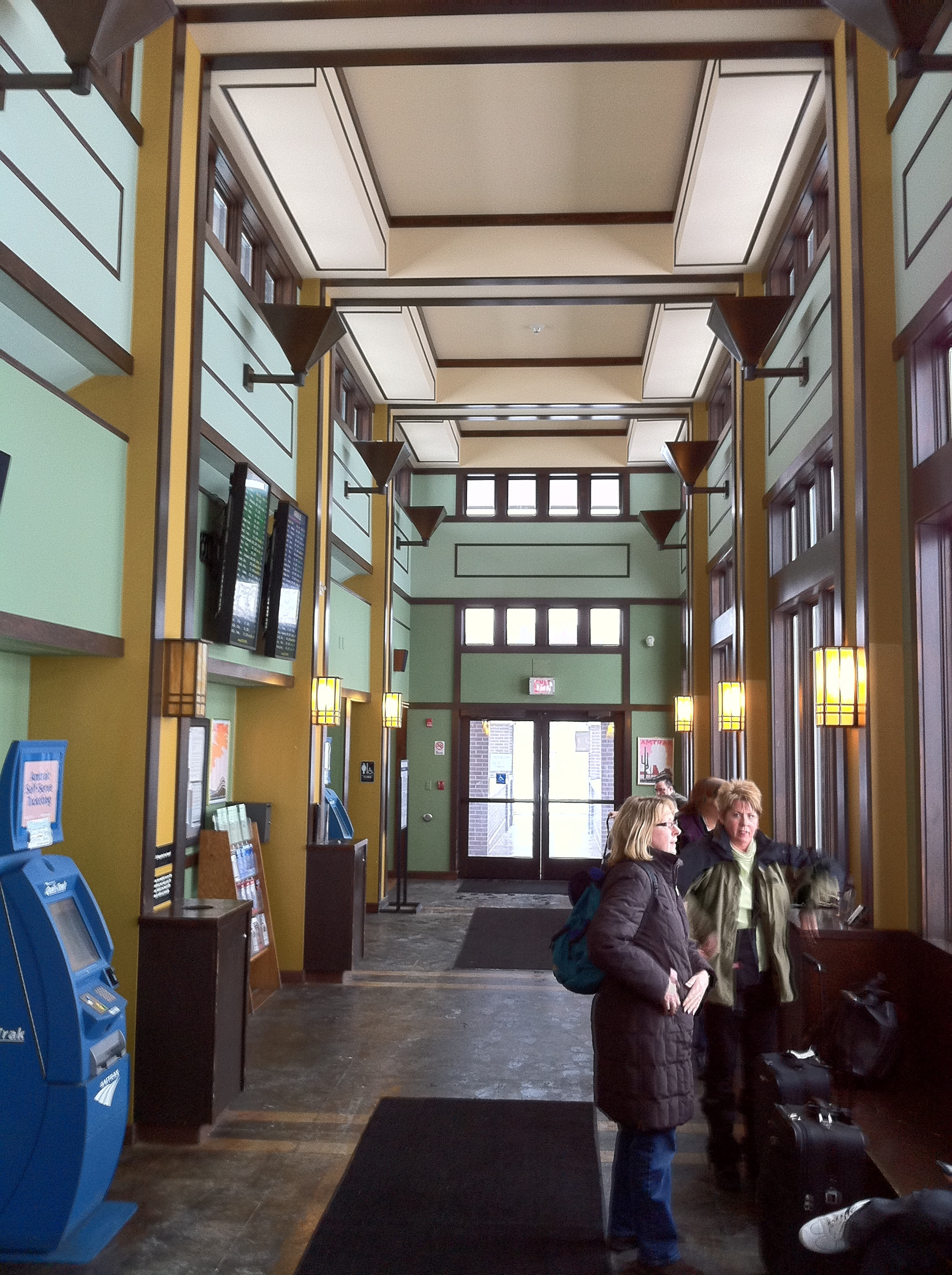 The interior of the Milwaukee Airport Amtrak station in Milwaukee, Wisconsin, USA, located adjacent to General Mitchell International Airport.